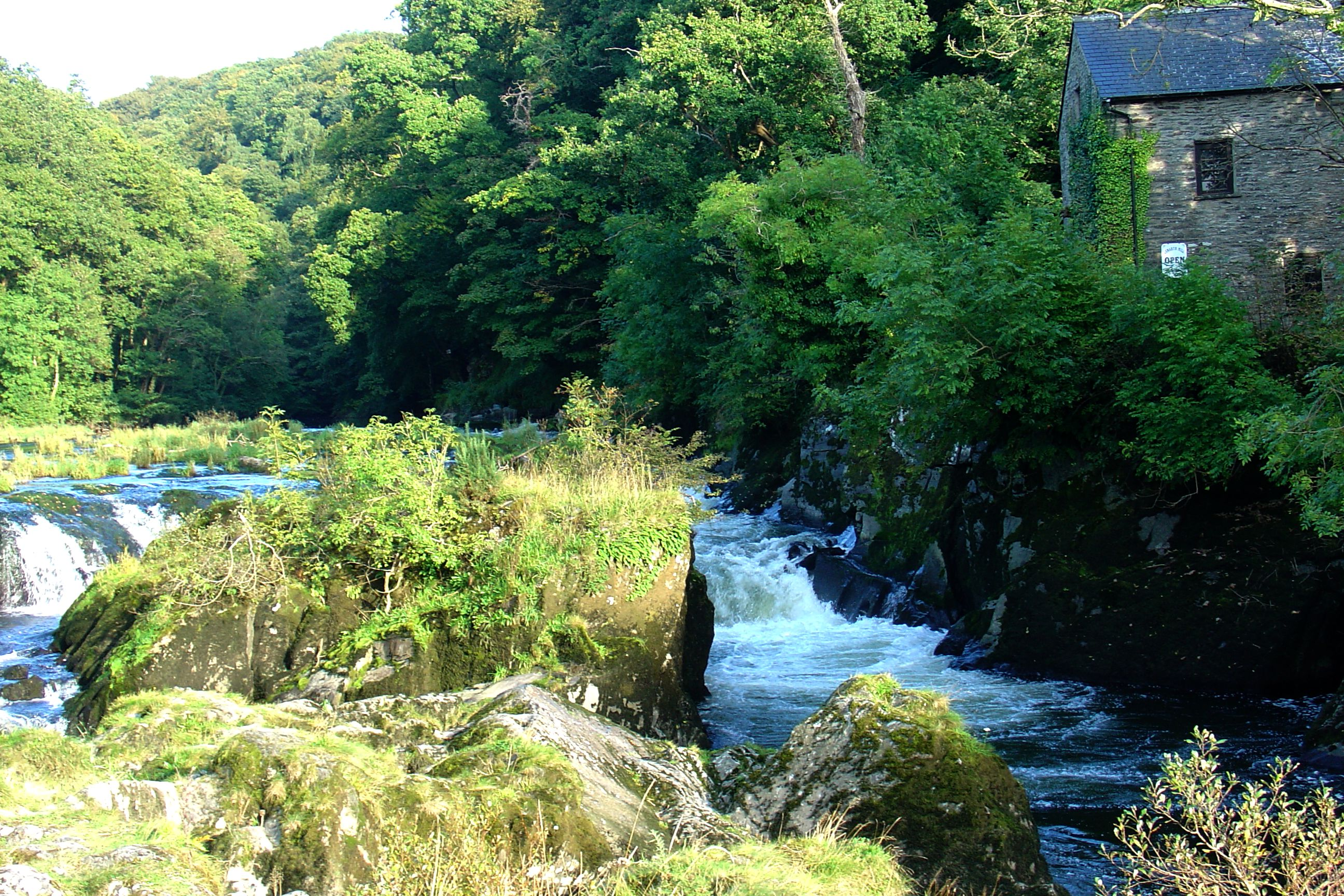 The falls and old mill at Cenarth, Carmarthenshire, on the River Teifi